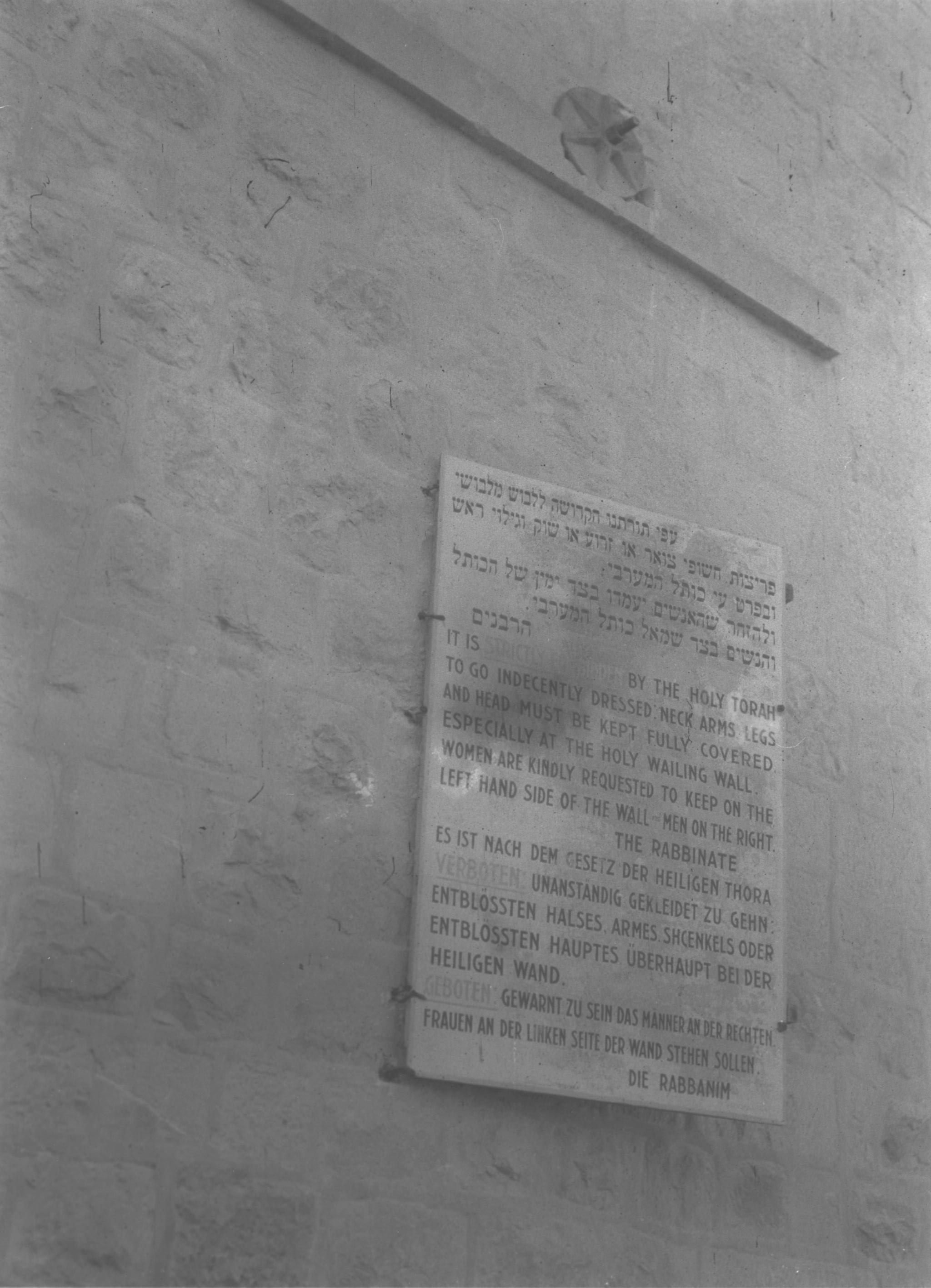 TRI-LINGUAL NOTICE CONCERNING DECENTLY DRESSED WOMEN-VISITORS TO THE WAILING WALL IN THE OLD CITY OF JERUSALEM. שילוט בדבר לבוש צנוע לנשים בכותל המערבי בירושלים.